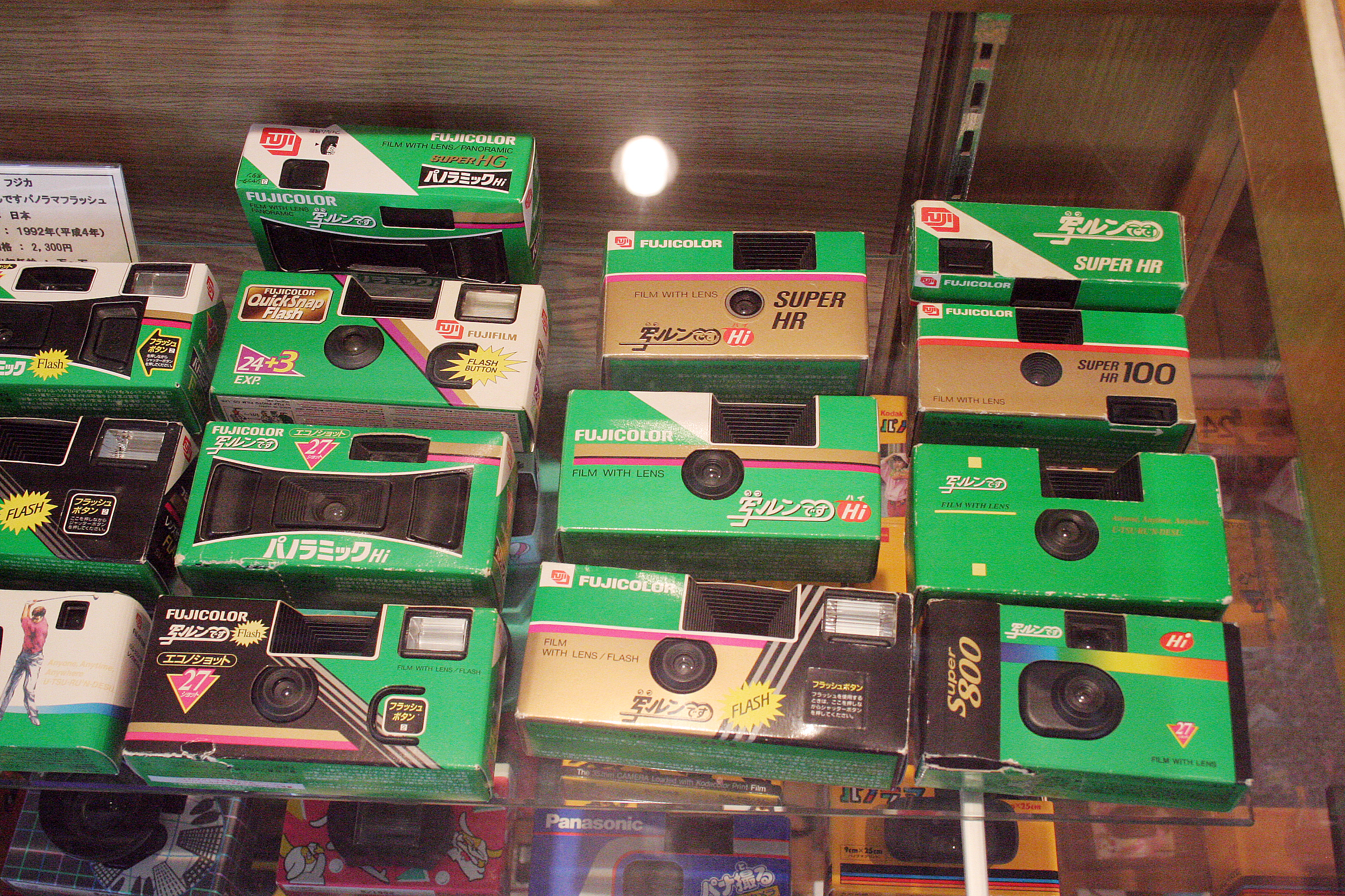 Fujifilm Single-use cameras. An early product.